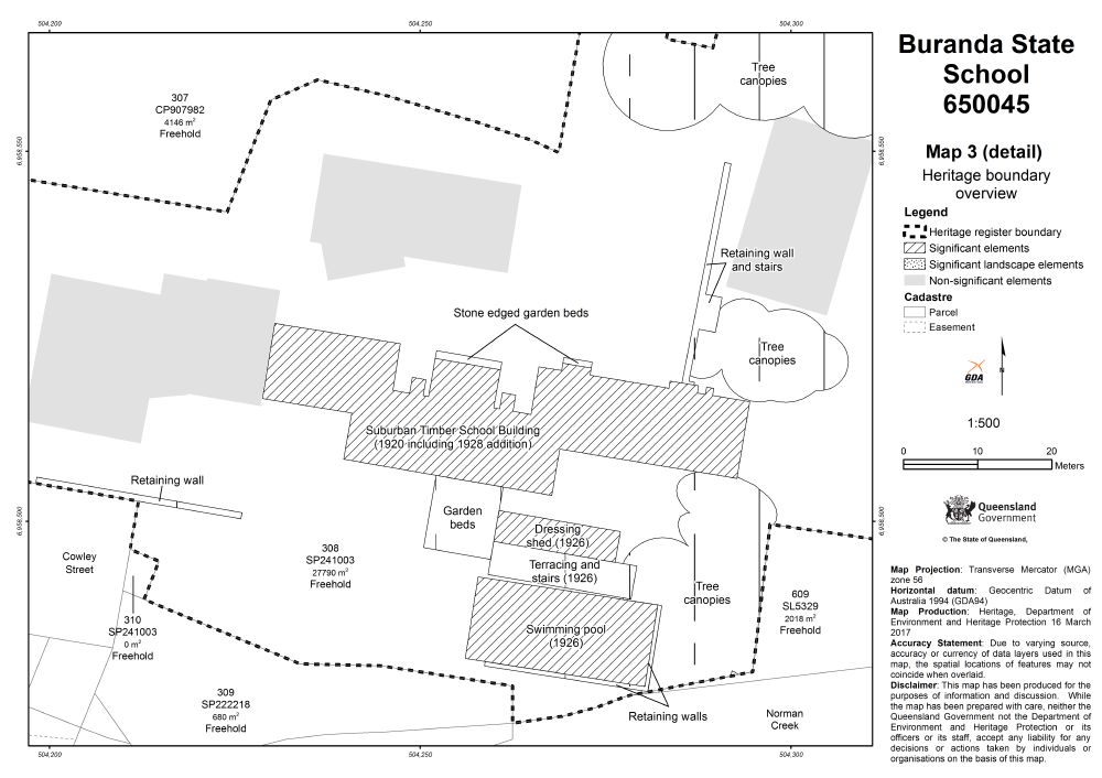 650045 - Buranda State School - Map 3 (2017)